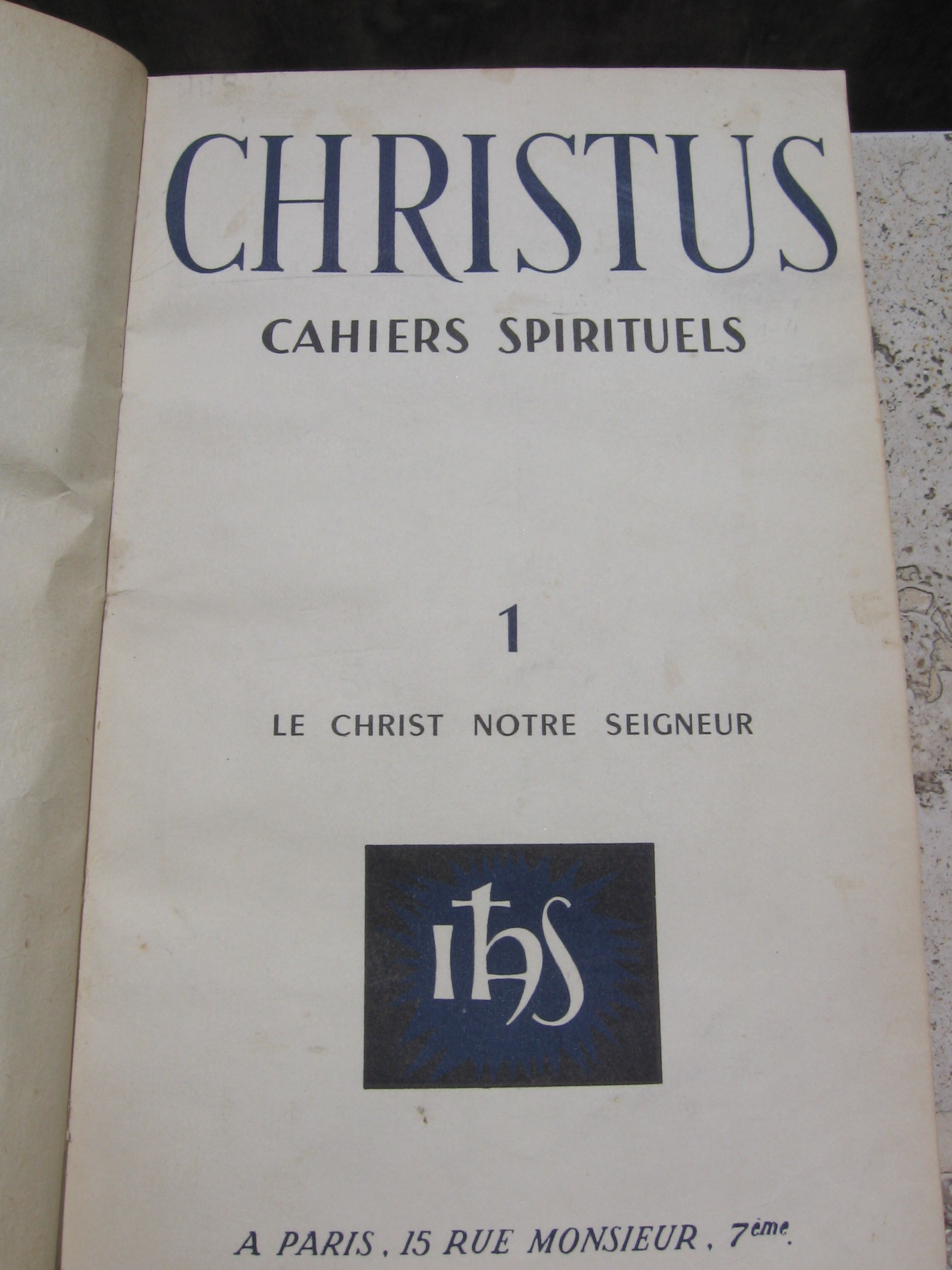 Cover of the first issue. French Journal 'Christus' (Janvier 1954)